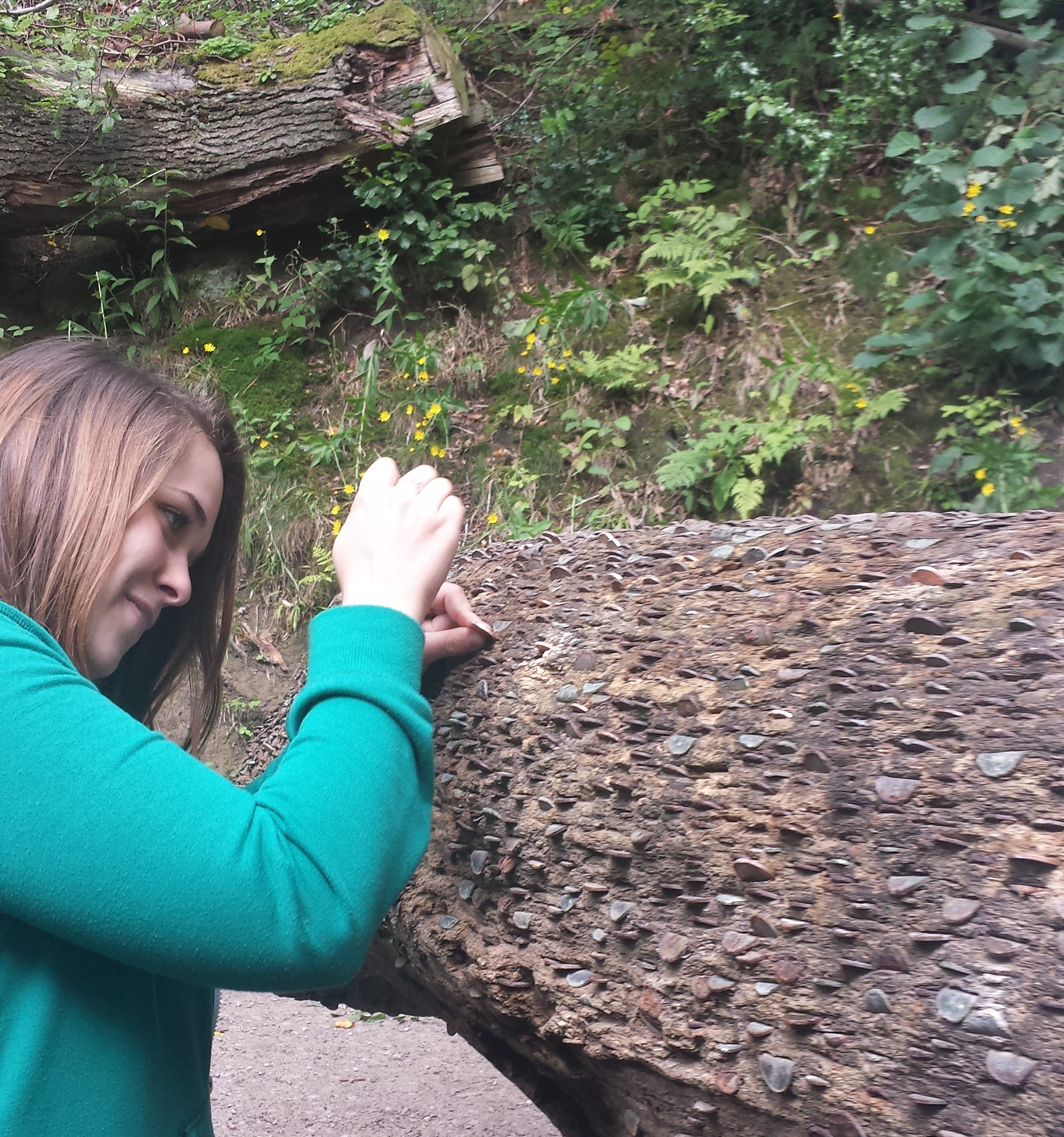 Hammering coin (2 pence piece) into Coin Tree at Bolton Abbey, Yorkshire, UK